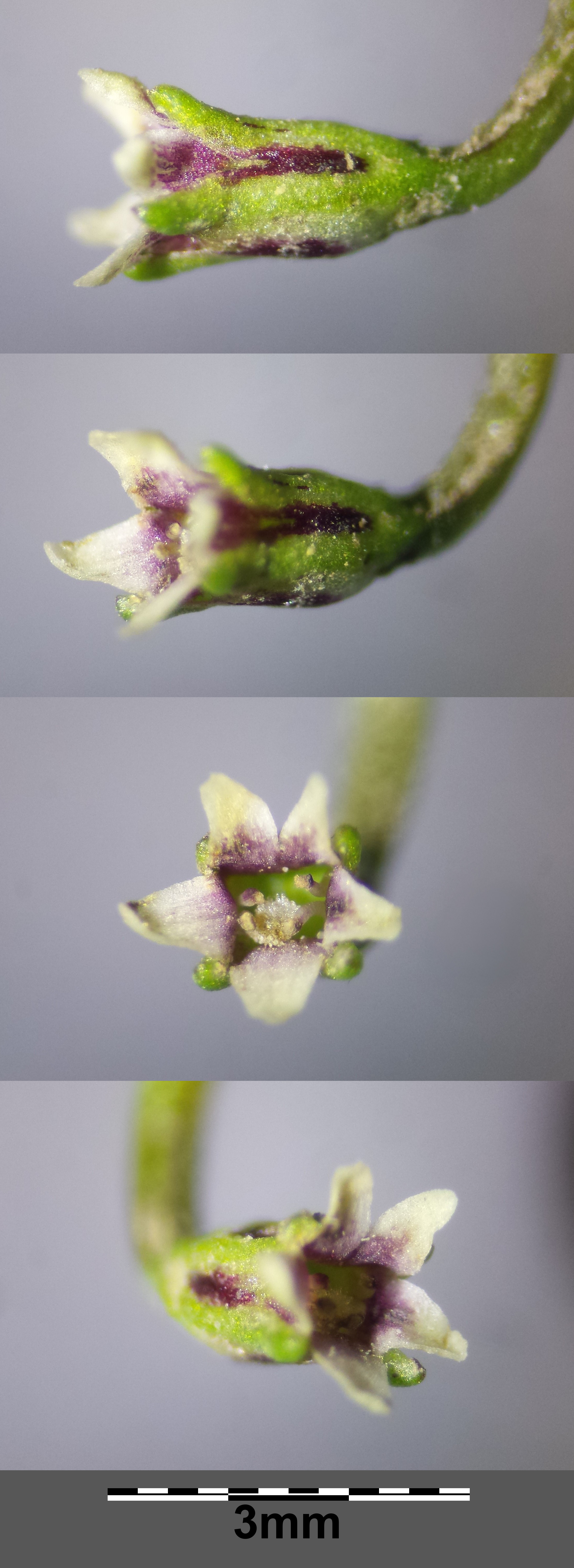 Flower Taxonym: Limosella aquatica ss Fischer et al. EfÖLS 2008 ISBN 978-3-85474-187-9 Location: Rudmannser Teich, district Zwettl, Lower Austria - ca. 580 m a.s.l. Habitat: ground of a lake